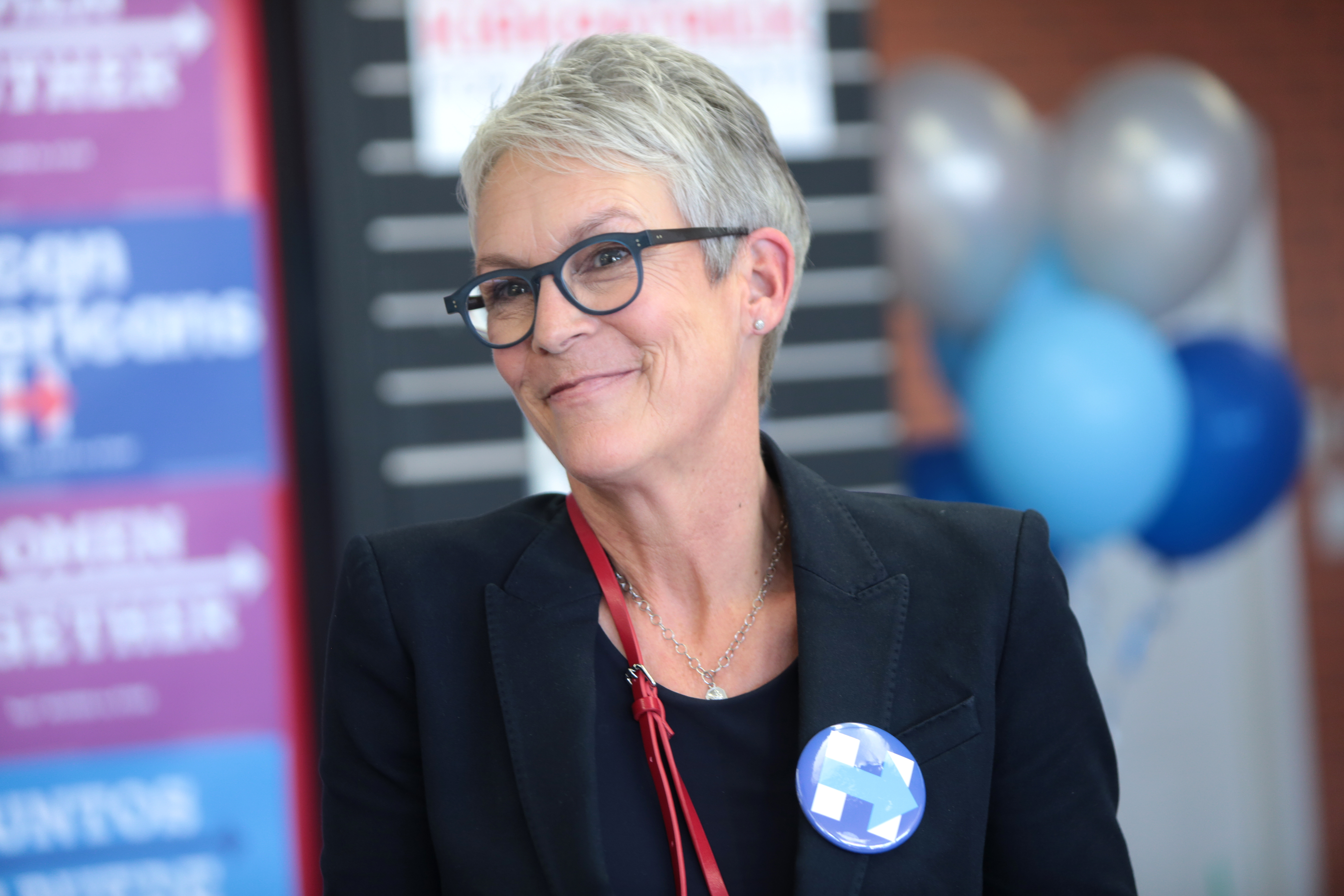 Jamie Lee Curtis speaking with supporters of former Secretary of State Hillary Clinton at a Hillary for America volunteer phone bank at the Tempe Campus Office in Tempe, Arizona.